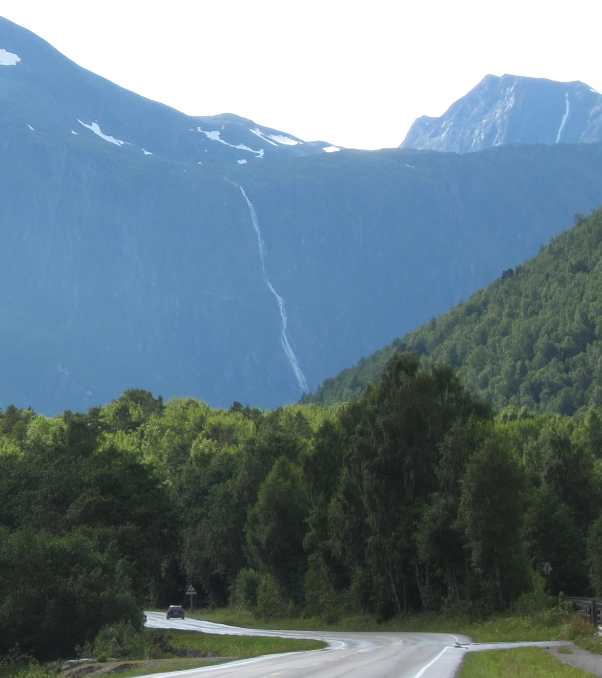 Ølmåafossen waterfall seen from road E136 at Flatmark, Romsdalen, Norway.